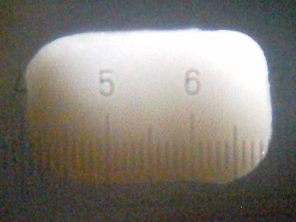 A grain of active dry baker's yeast. I was rather surprised by how uniform these grains are in size and shape. 5× objective, 15× eyepiece; numbered ticks are 230 µM apart. Each pixel in the full-sized version of this image represents a 0.767 µM square.